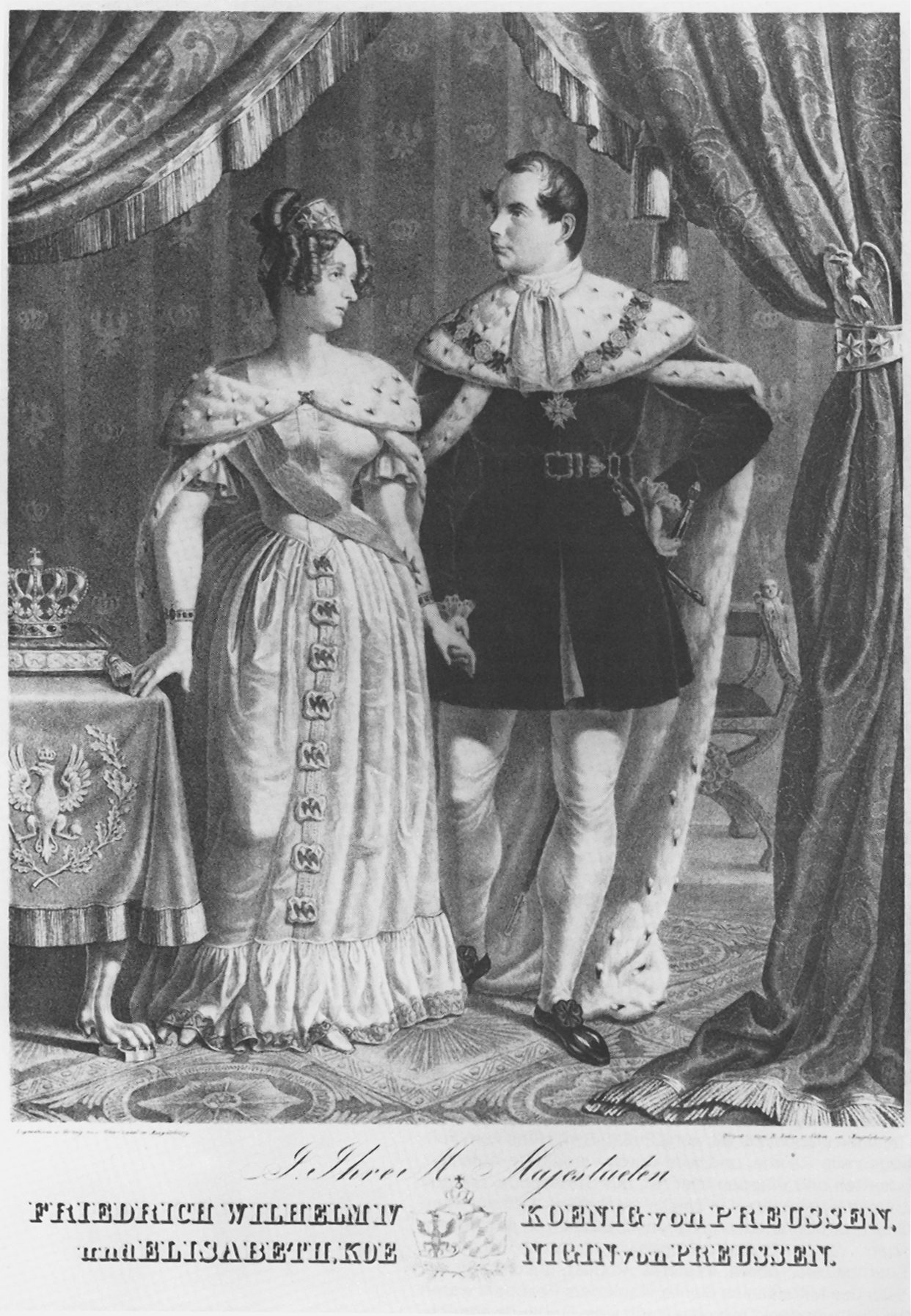 Frederick William IV of Prussia and his consort Elisabeth in their ermine-edged coronation robes, ca. 1840. Lithograph, printshop of B. Kehse & Sohn, Magdeburg.